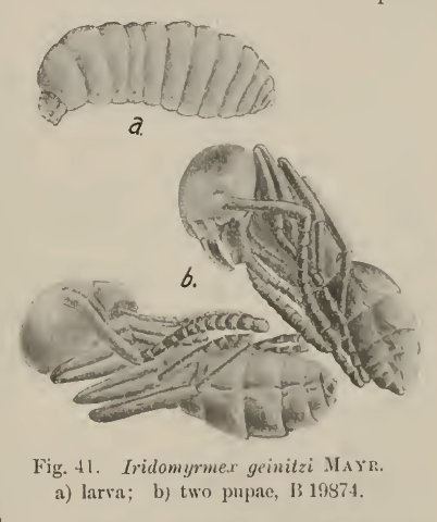 Yantaromyrmex geinitzi a) larva b) 2 pupae Specimen B 19874